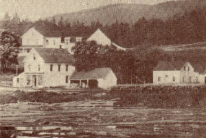 The village of Point Wolfe near the end of its lumering days, about 1915